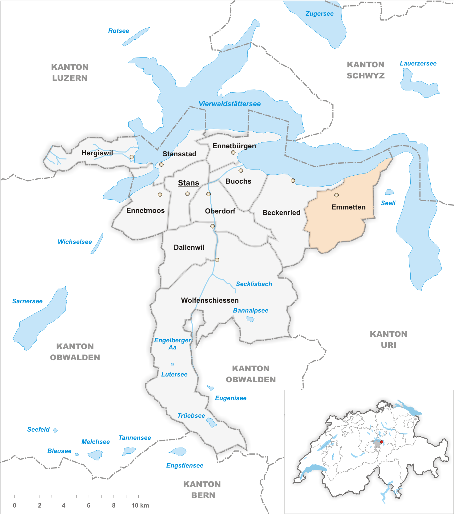 Municipality Emmetten